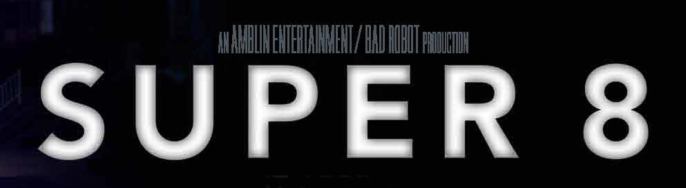 Logotipo película Super 8